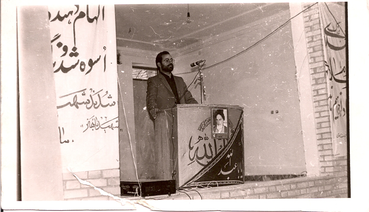 Abbas Mirza Abutalebi speechs after Iranian Revolution.